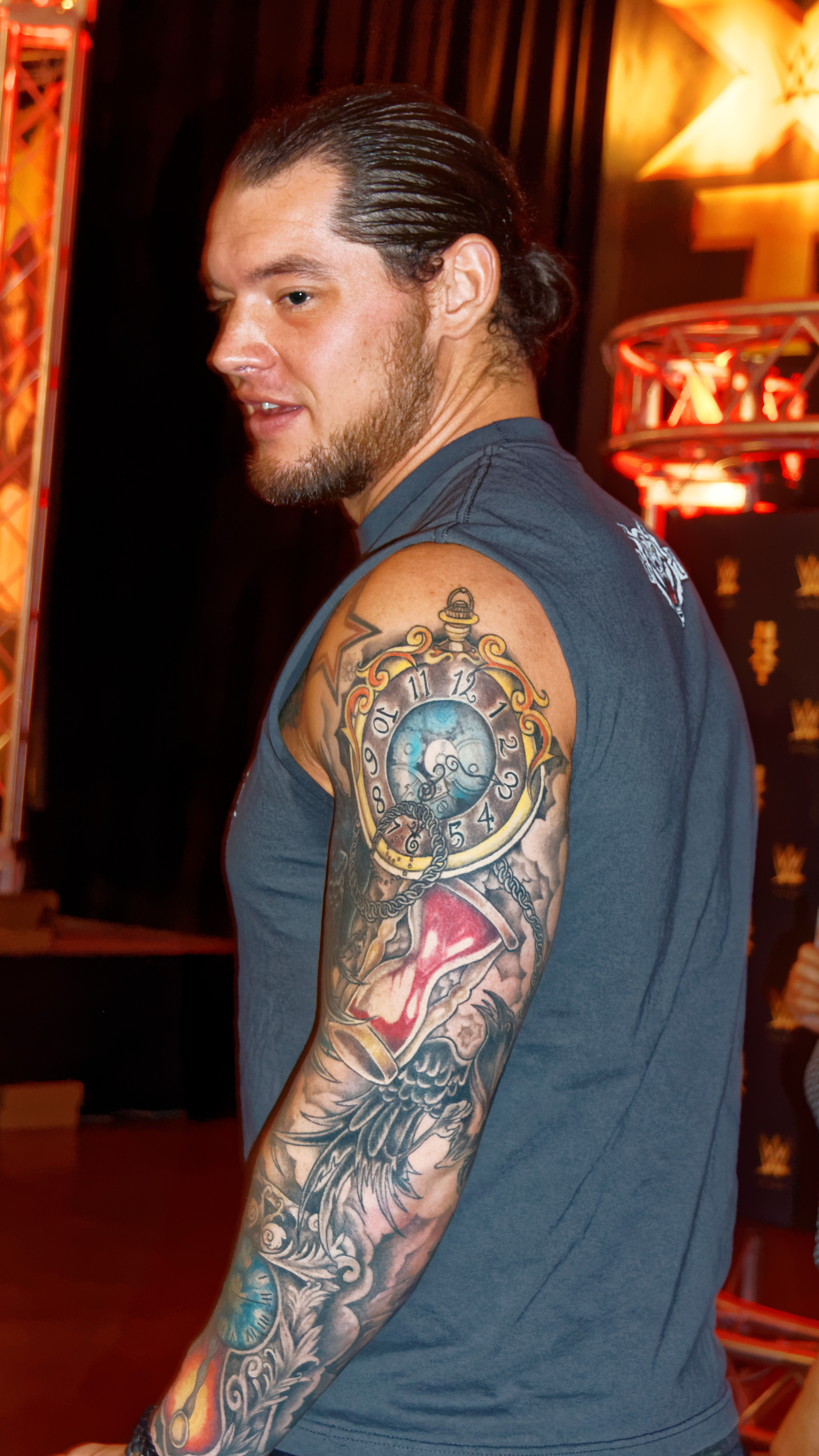 Baron Corbin at WrestleMania 31 Axxess in March 2015.